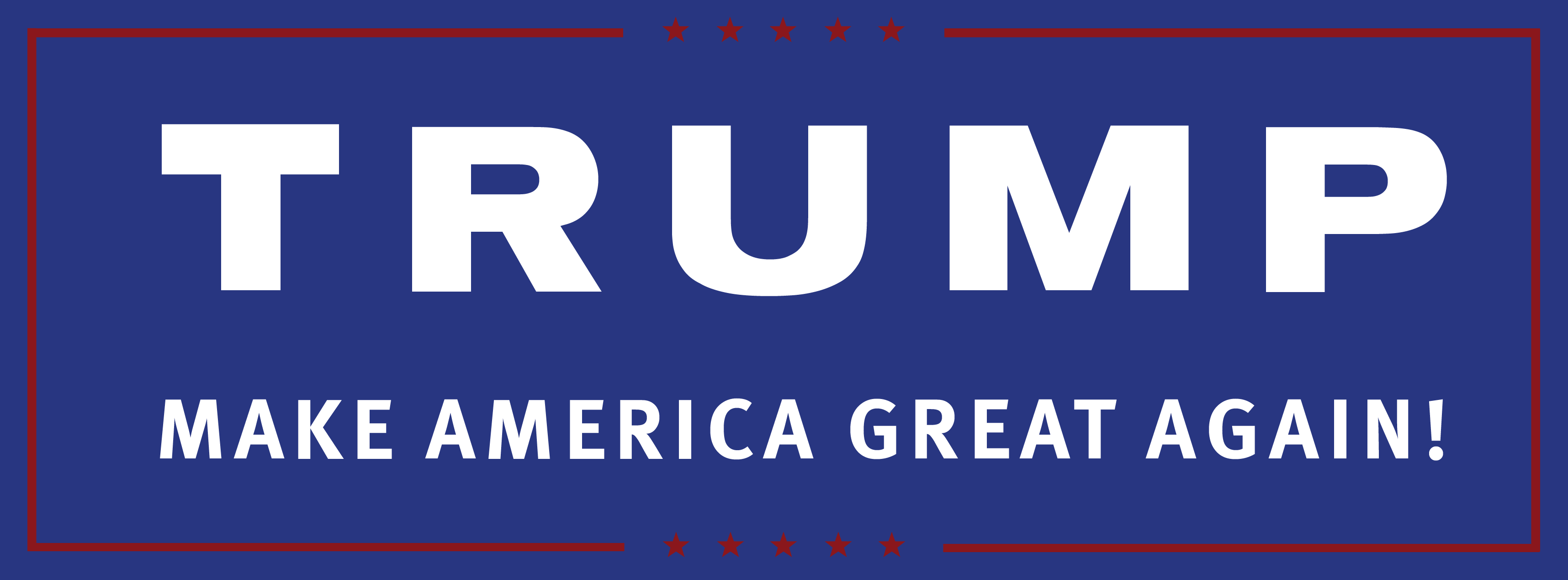 Donald Trump's campaign logo, 2016. This version is used on most campaign materials, rallies, sites, etc.